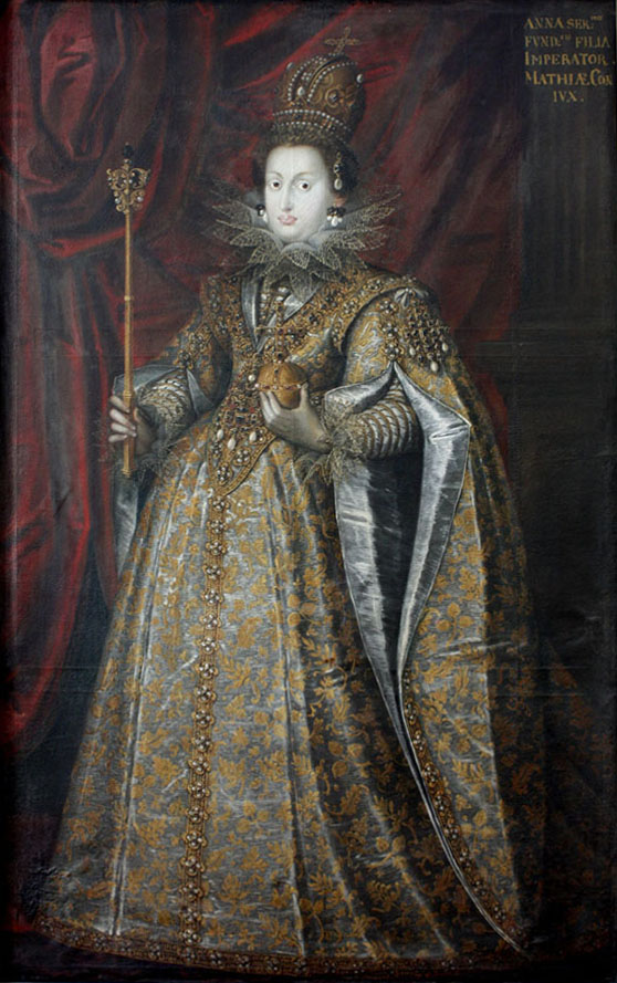 Portrait of Anna of Tyrol (1585-1618)